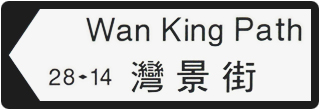 A reproduction of the road sign on Wan King Path in Sai Kung, Hong Kong.